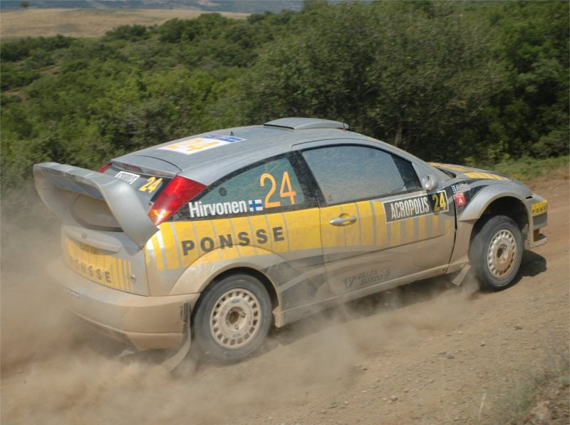 Mikko Hirvonen driving a Ford Focus WRC at the 2005 Acropolis Rally.